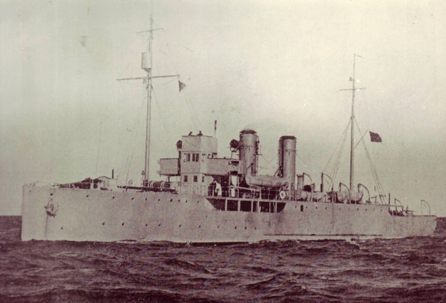 HMS Zinnia, a British minesweeper of the Azalea class, in Belgium in 1920.